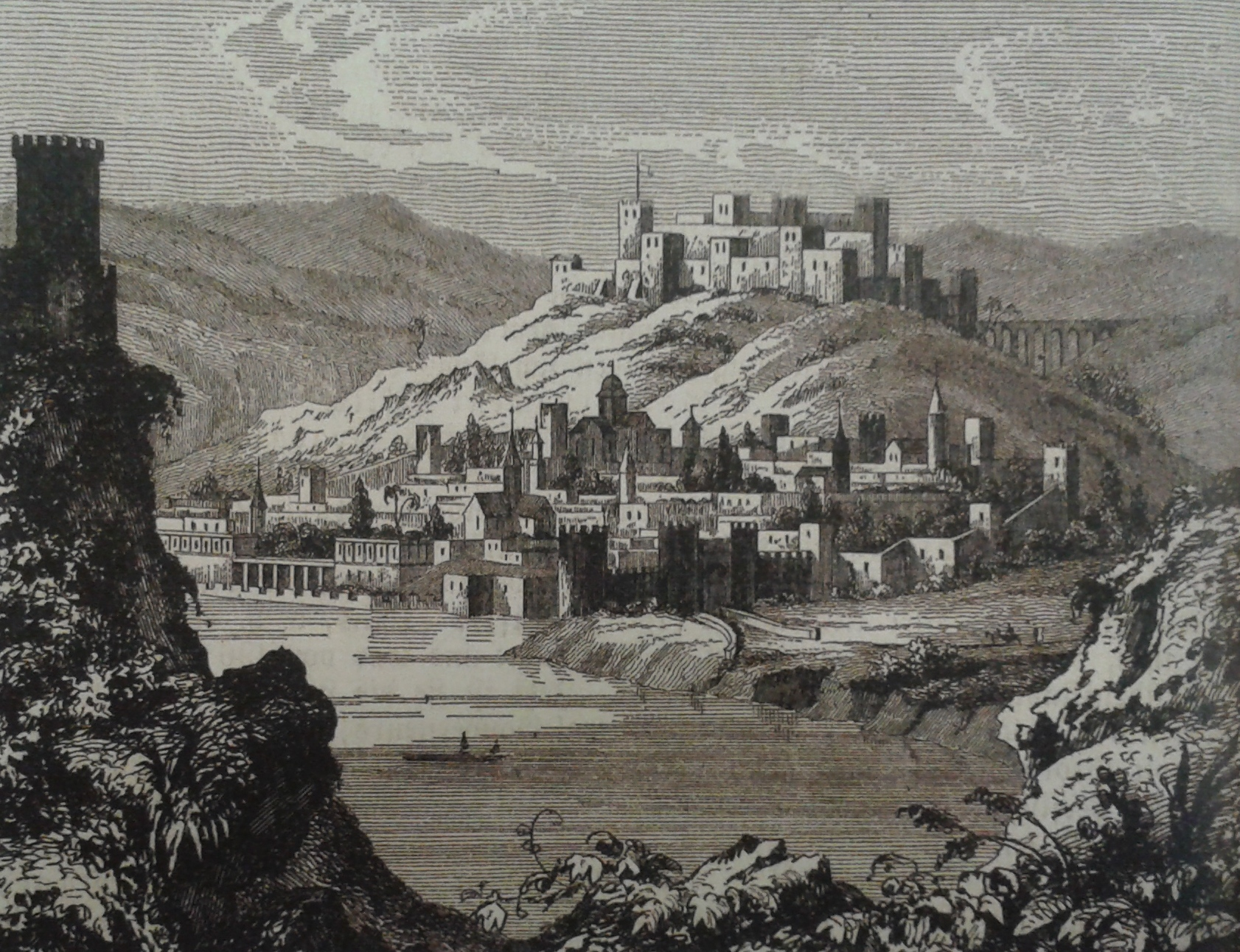 German engraving of Tbilisi, 19th century